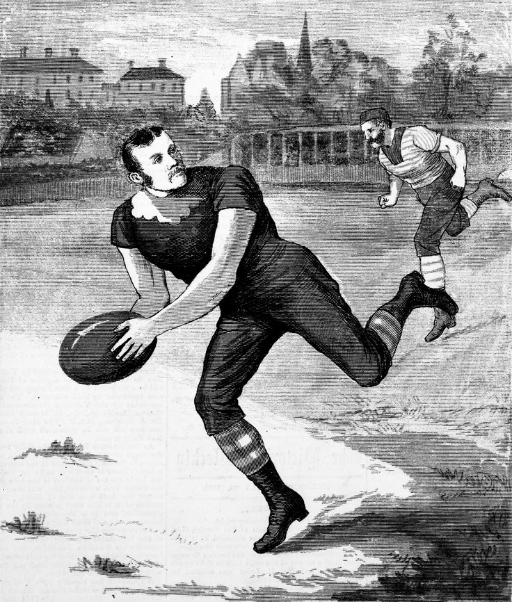 Sketch of a football match between Carlton and Geelong, showing Carlton's George Coulthard running with the ball; published in the Australian Pictorial Weekly; wood engraving; 22 x 19cm